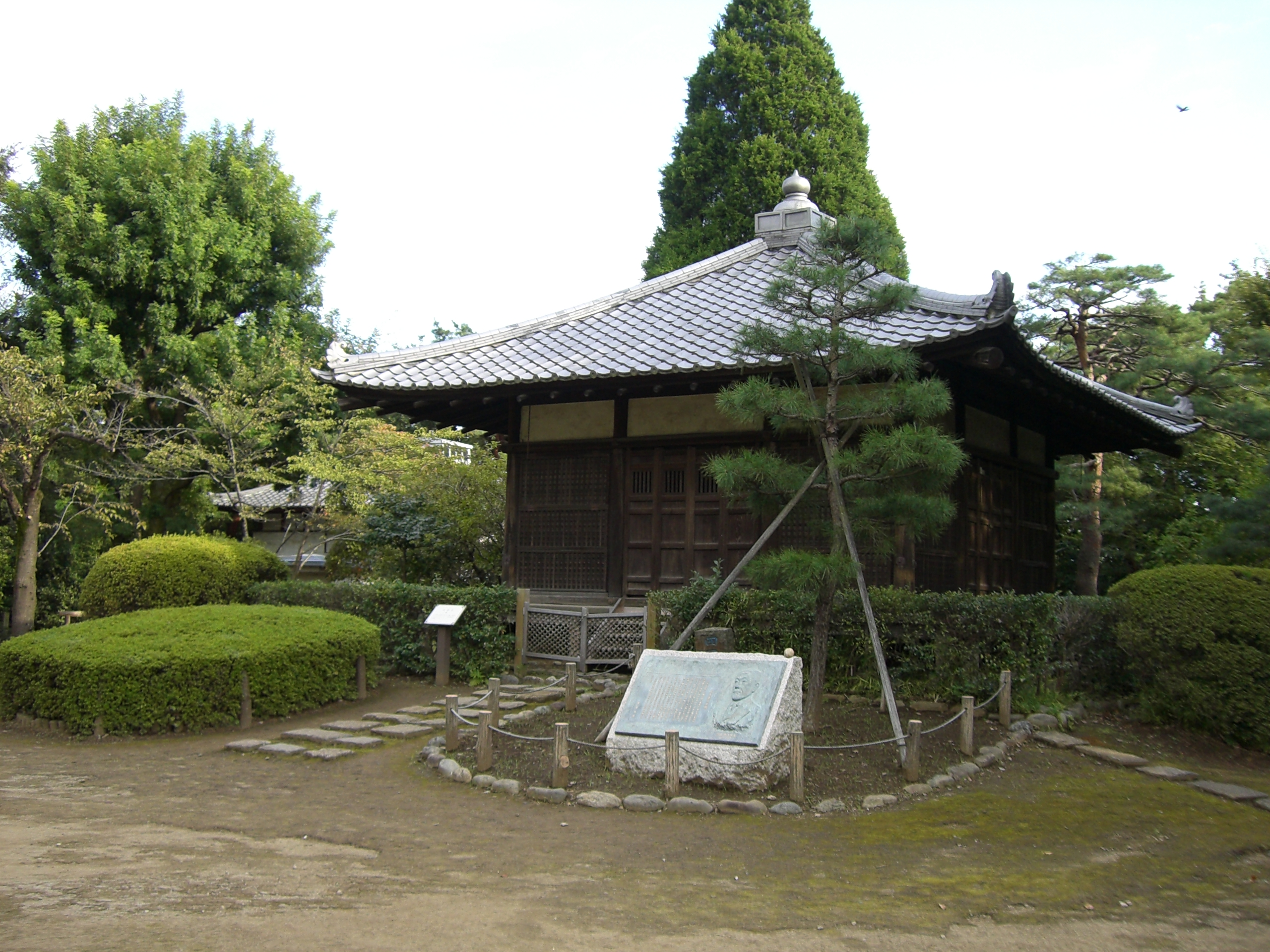 Tetsugakudoukouen Rokkendai at : 2005-10-24 Tetsugakudoukouen by : Suisui